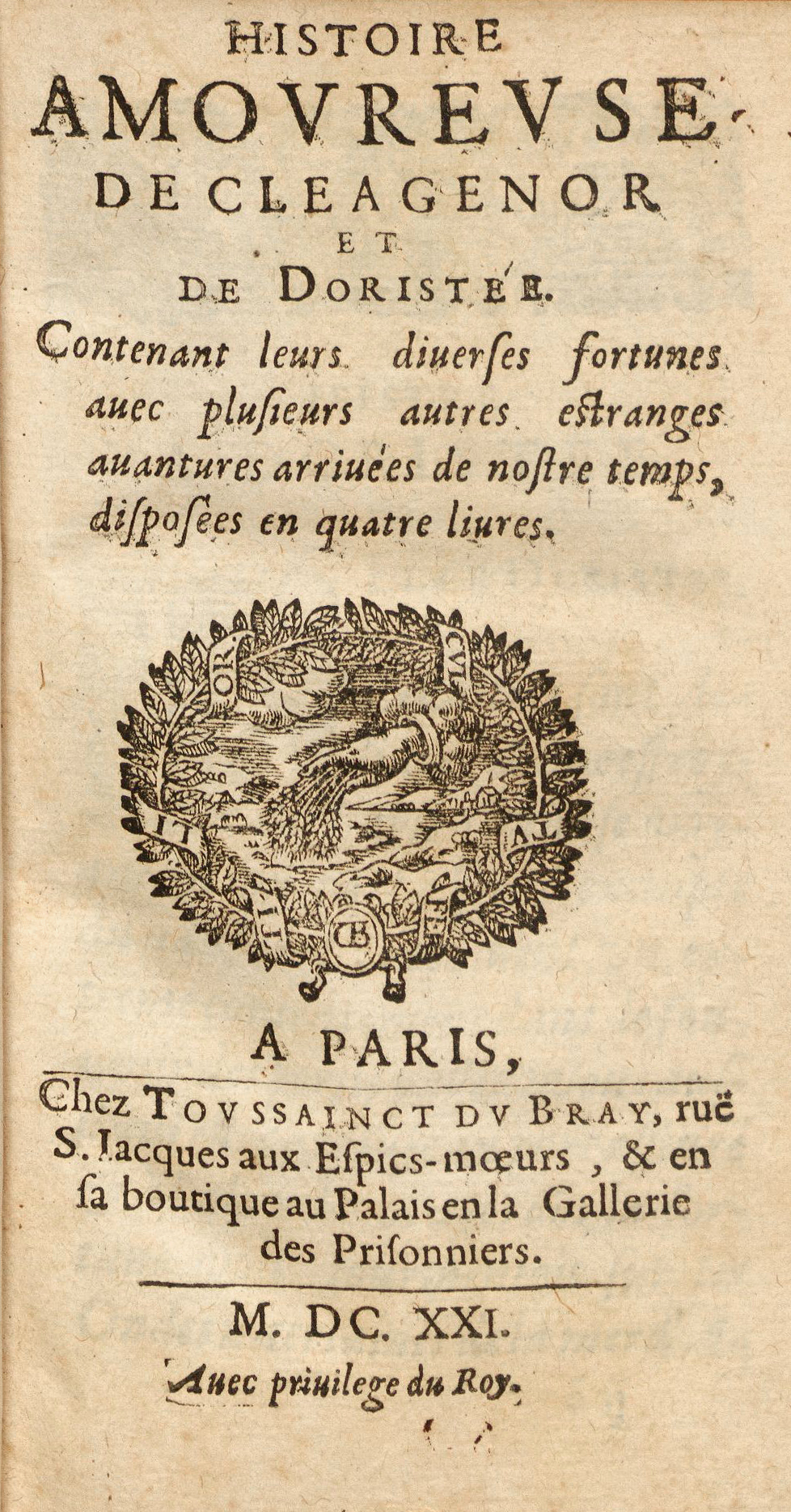 Title page: Histoire amovrevse de Cleagenor et de Doristée, Paris: 1621, by Charles Sorel (1582?-1674). From the library of Madame de Pompadour, with her armorial binding. *FC6.So683.621h, Houghton Library, Harvard University